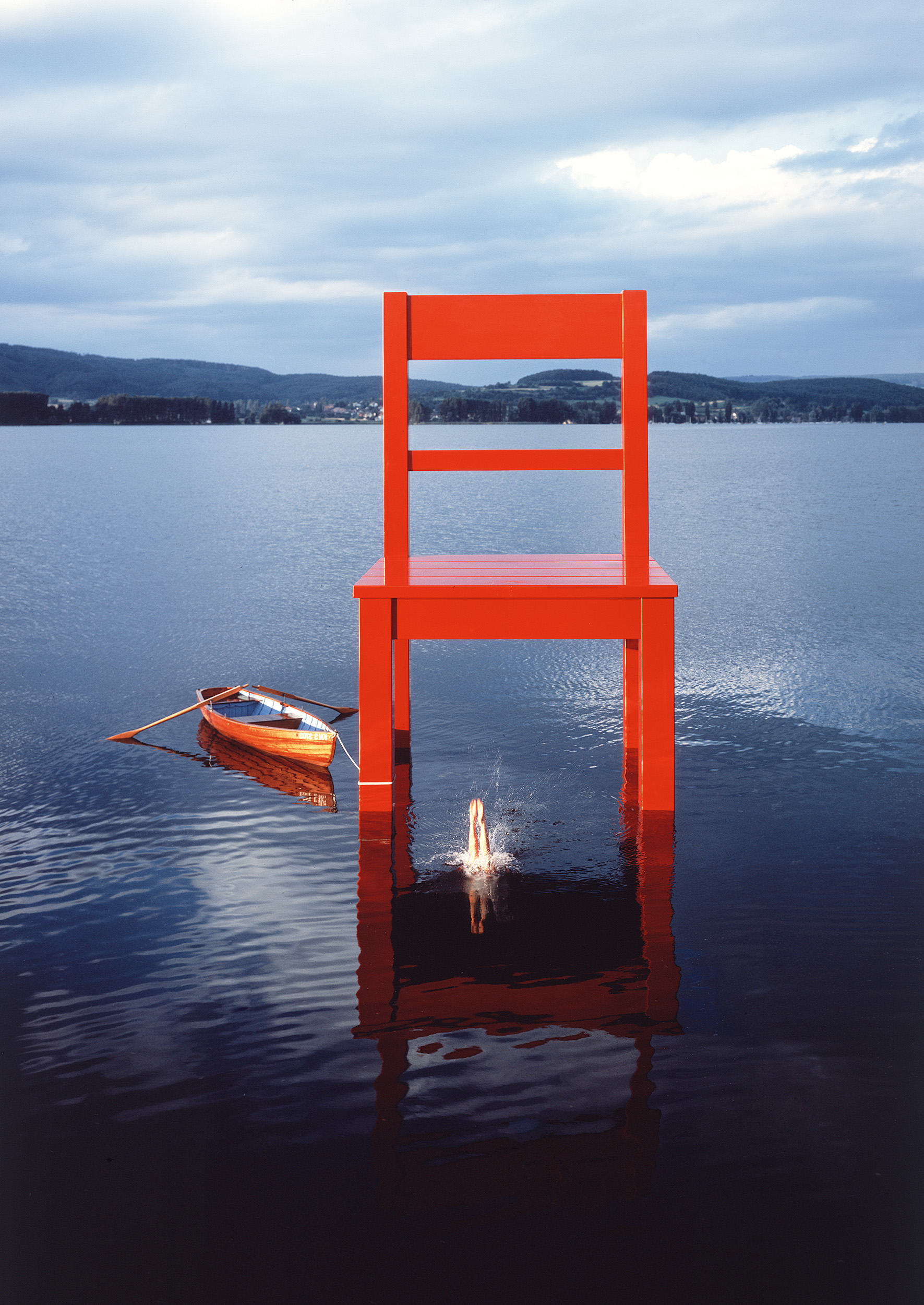 Otto Kasper Red Chair